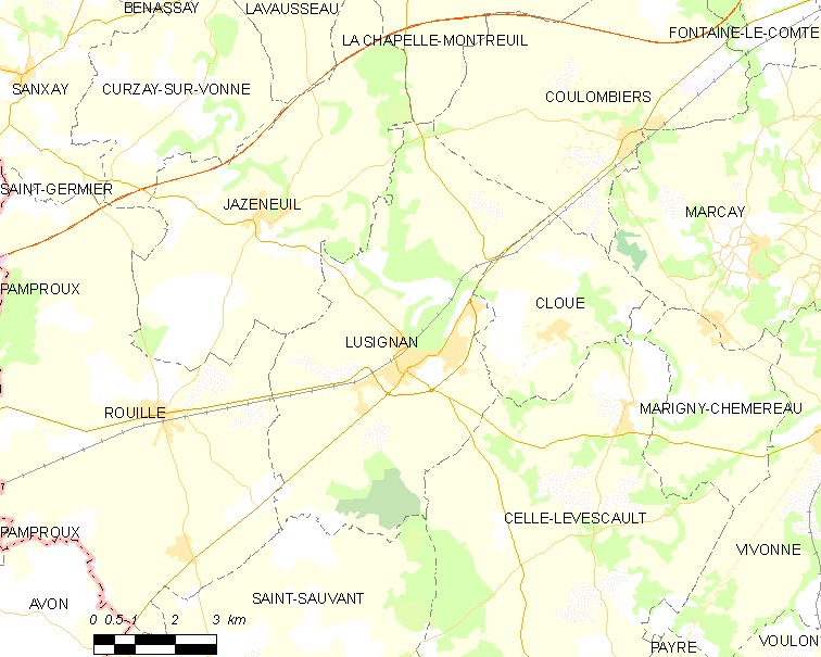 Map of French municipality Lusignan